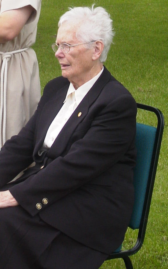 Photo of Dr Mary Berry, taken at Hengrave Hall in 2004